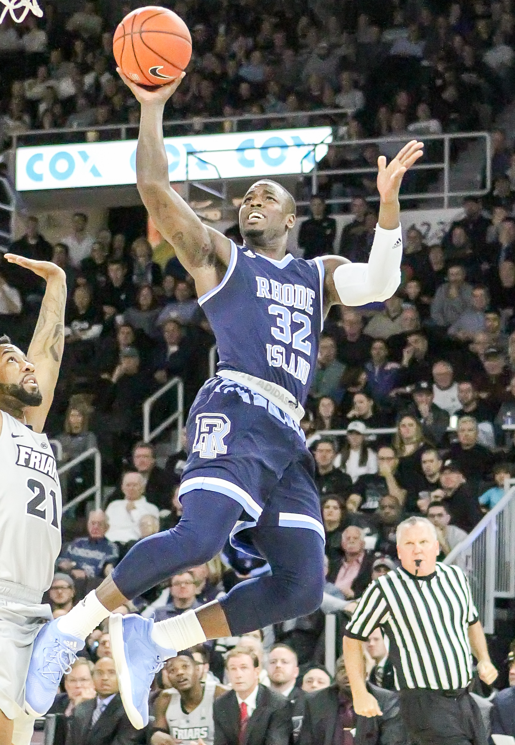 December 3, 2016. The Dunkin' Donuts Center, Providence, RI. Photo:©KJ Sports Pics